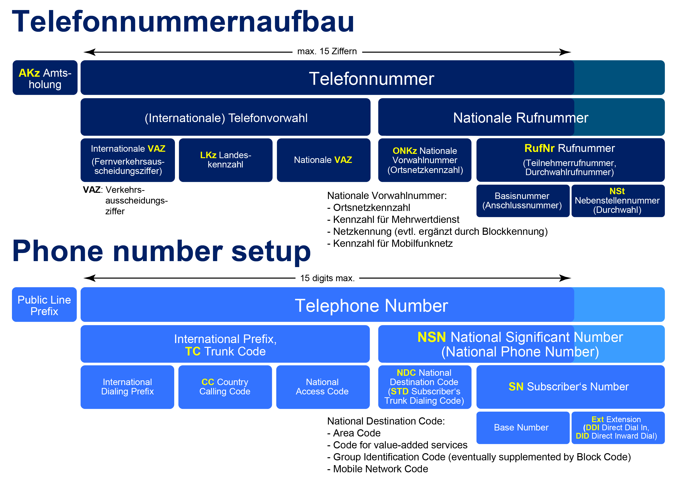 Phone number setup